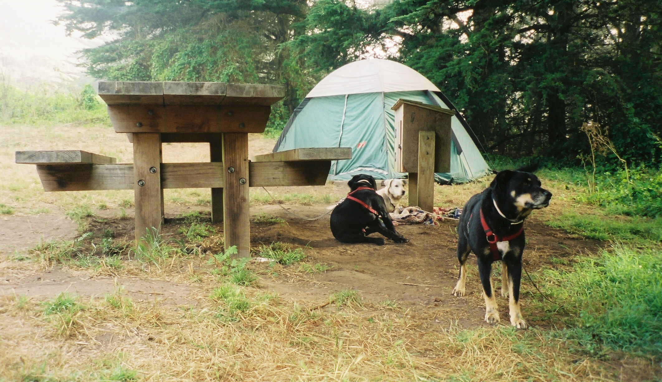 Bicentennial Campground within the Golden Gate National Recreation Area surrounding the San Francisco Bay area, California. Free, Pets allowed.